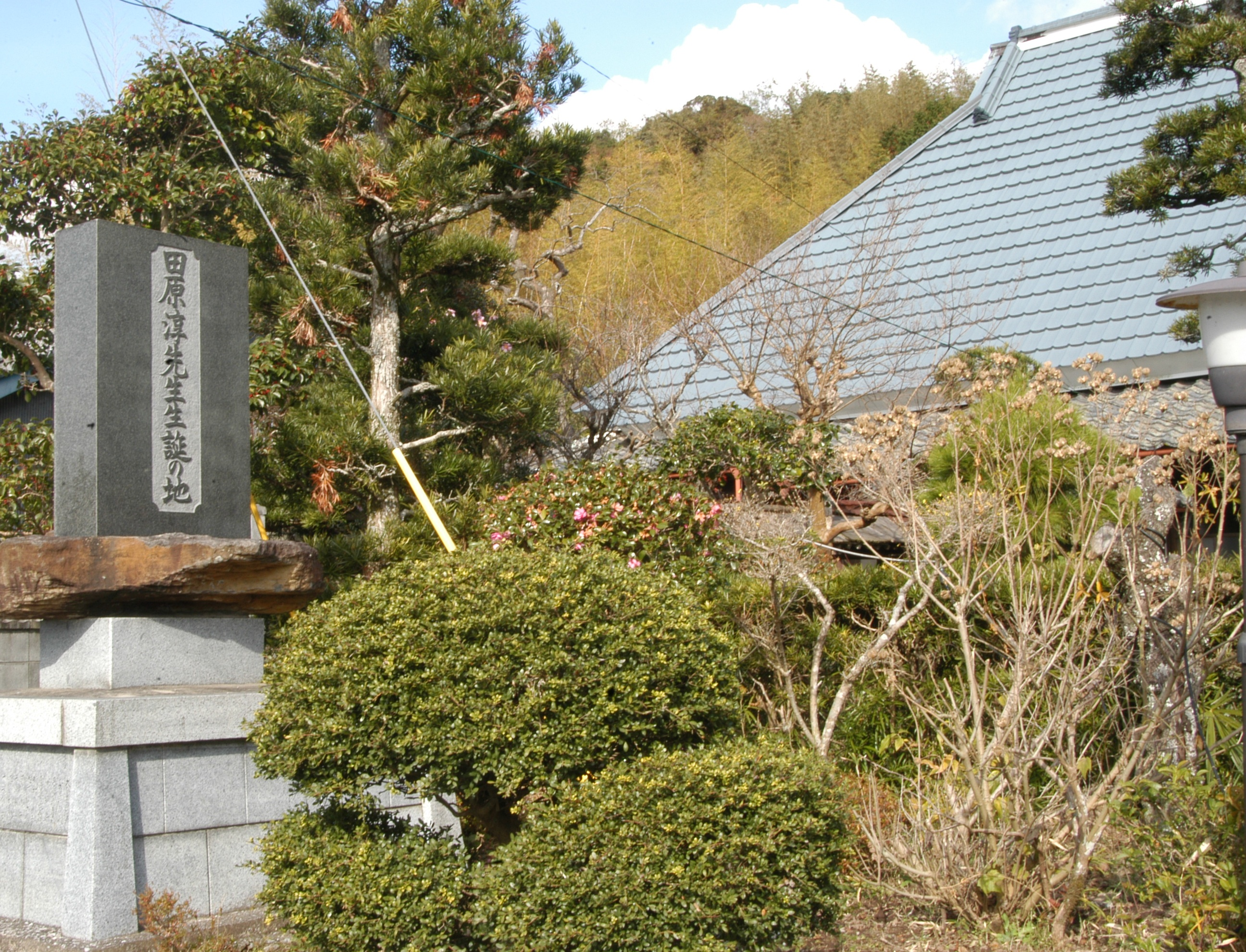 Birthplace with memorial stone of the Japanese pathologist TAWARA Sunao (1873–1952), who discovered the atrioventricular node (Nodus atrioventricularis).